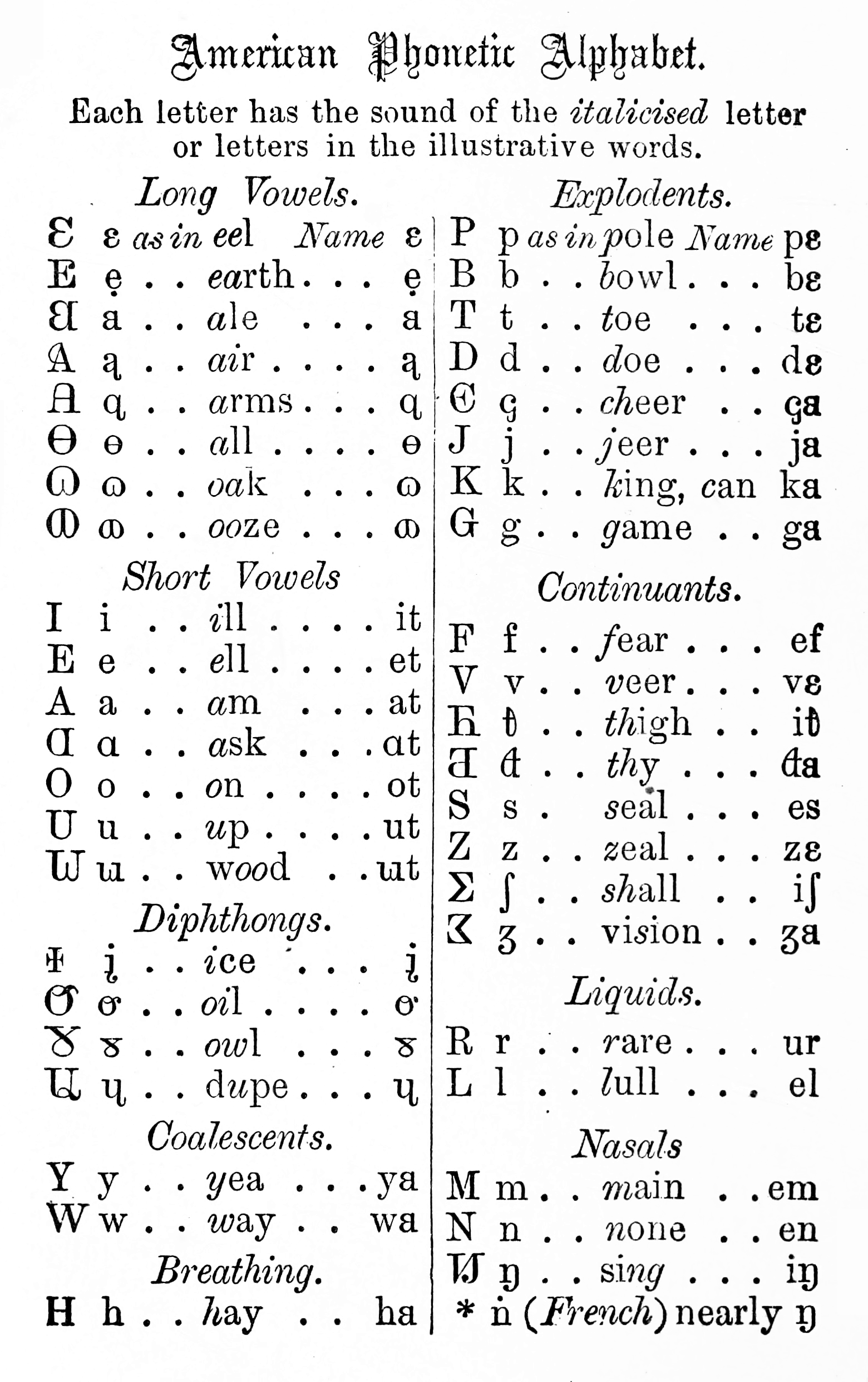 ibid ibid ibid